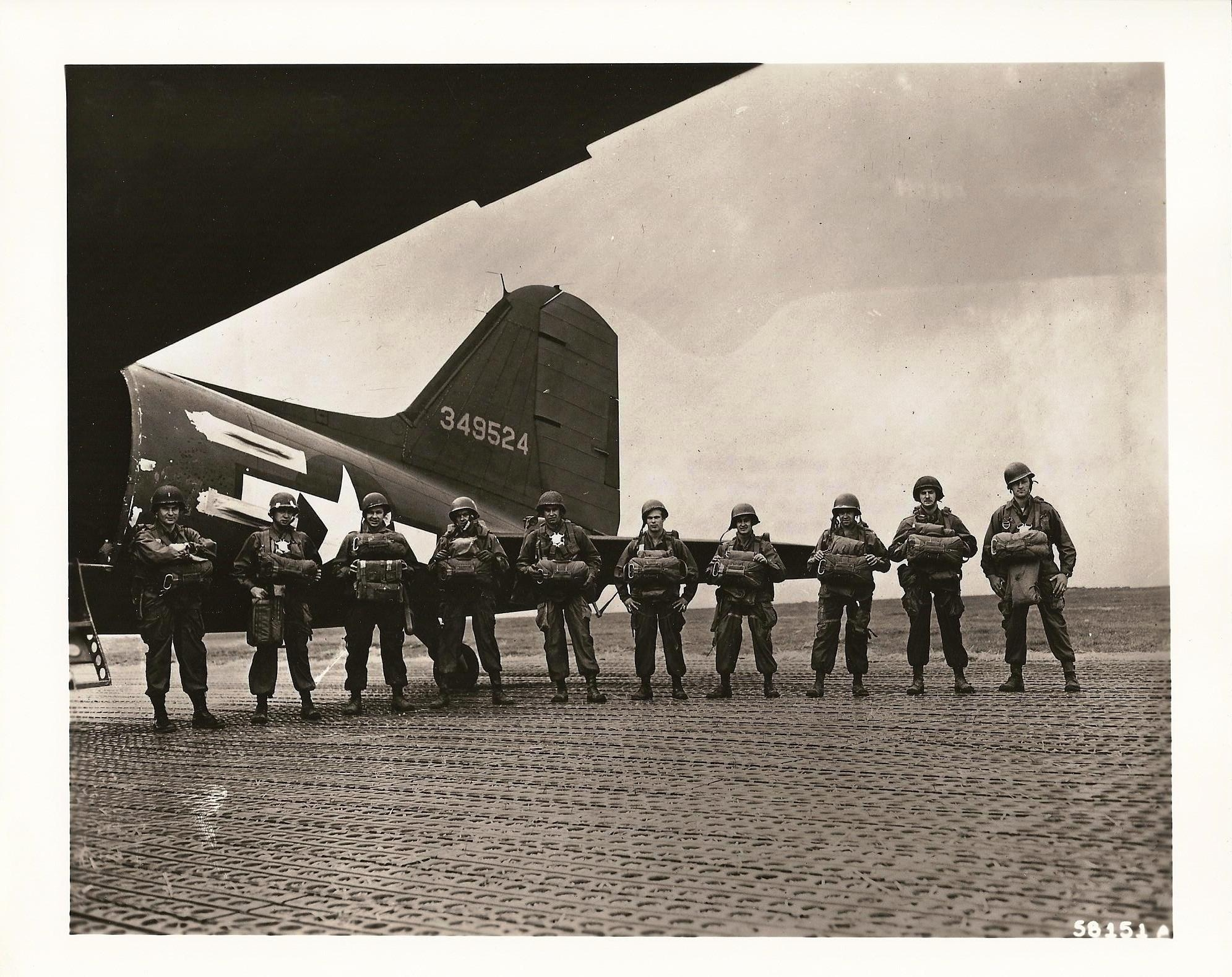 Army paratroopers stand near a 10th Troop Carrier Squadron aircraft during World War II. The squadron eventually earned the Distinguished Unit Citation for its exceptional service.